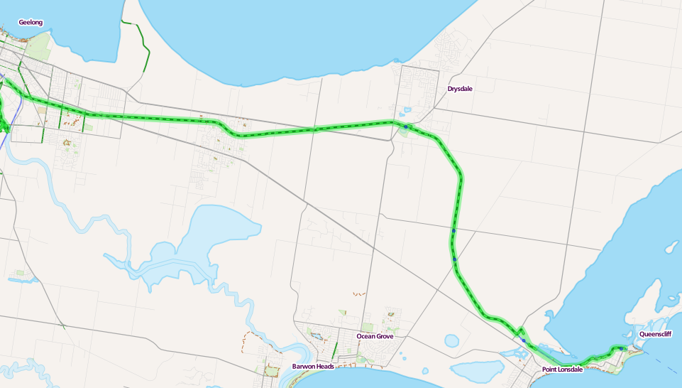 Map of the Bellarine Rail Trail. Data copyright OpenStreetMap contributors. Rendered using TileMill, using a style I made.